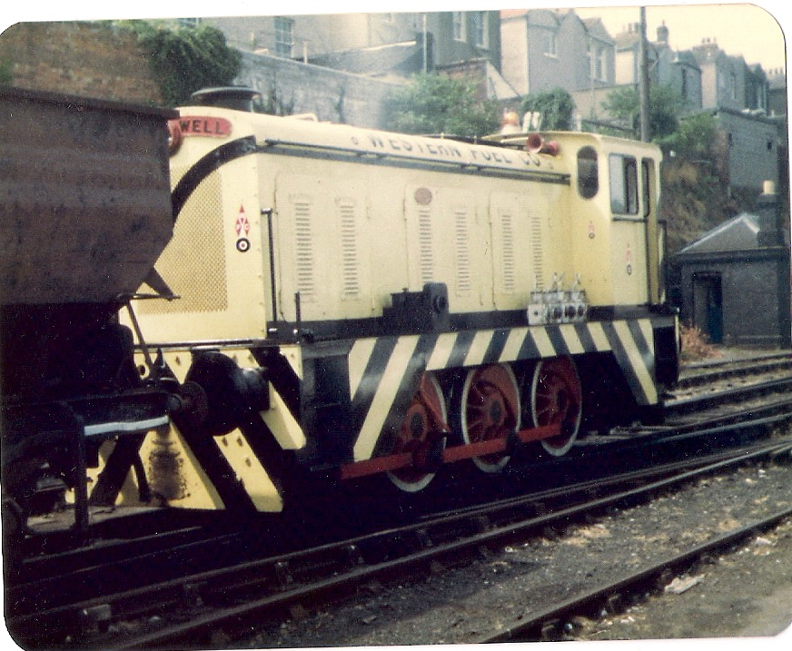 This locomotive is probably 'Western Pride' - originally the Port of Bristol Authority's No 30. It was built by Hudswell Clarke & co in 1959. It is believed to be preserved at an unknown address.